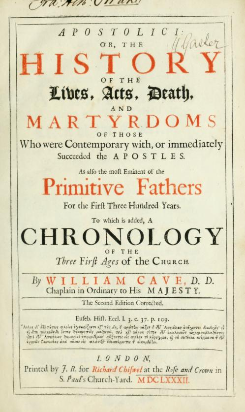 Title page to William Cave's Apostolici: or the history of the lives, acts, death and martyrdoms of those who were contemporary with, or immediately succeeded the Apostles (1682).